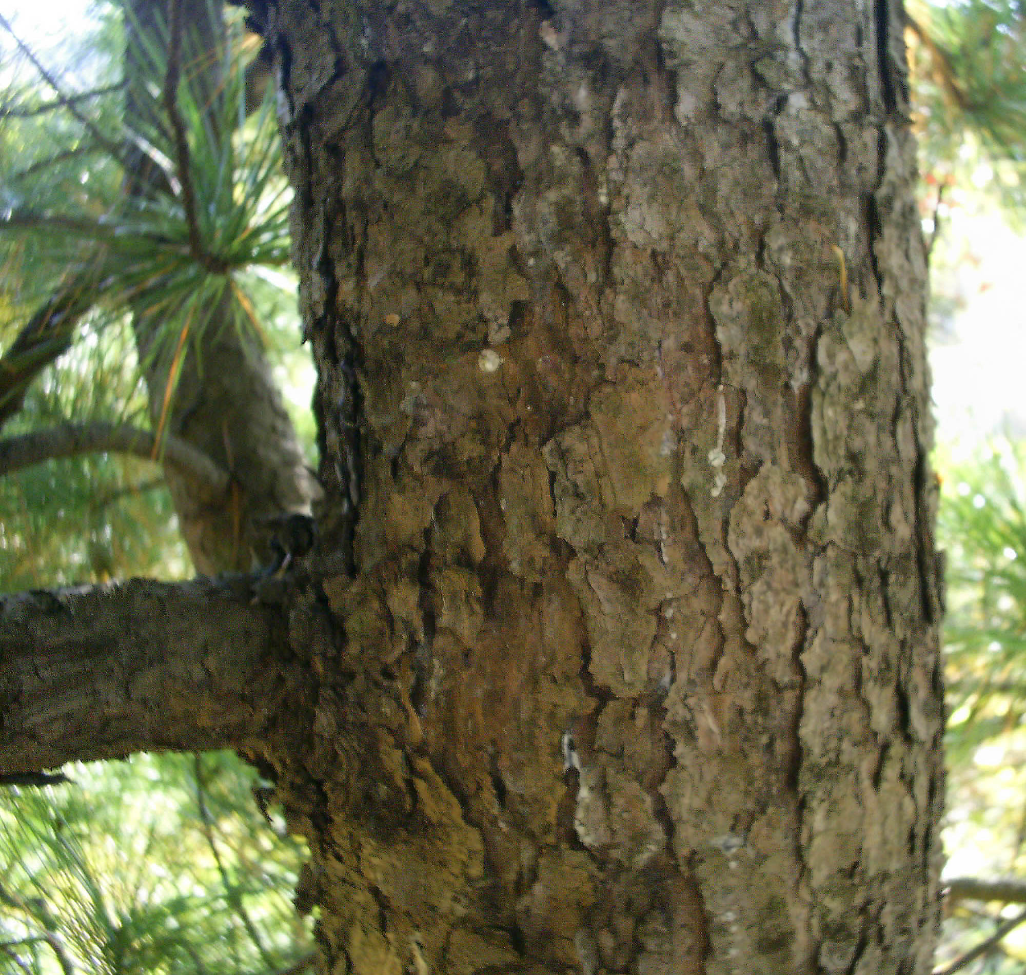 Bark of Korean Pine (Pinus koraiensis)